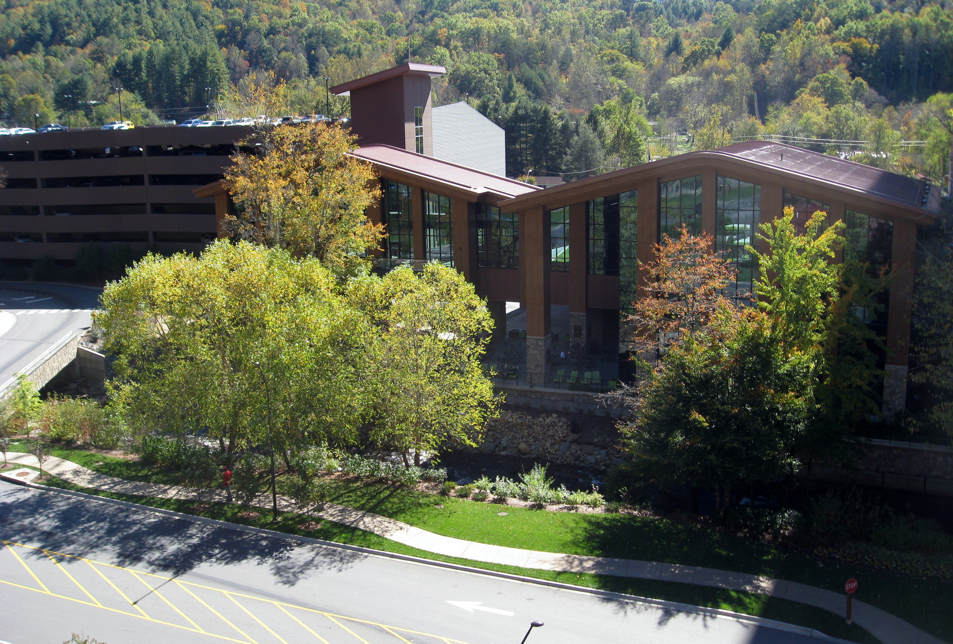 Cherokee - Harrah's Casino Cherokee - View From Parking Tower